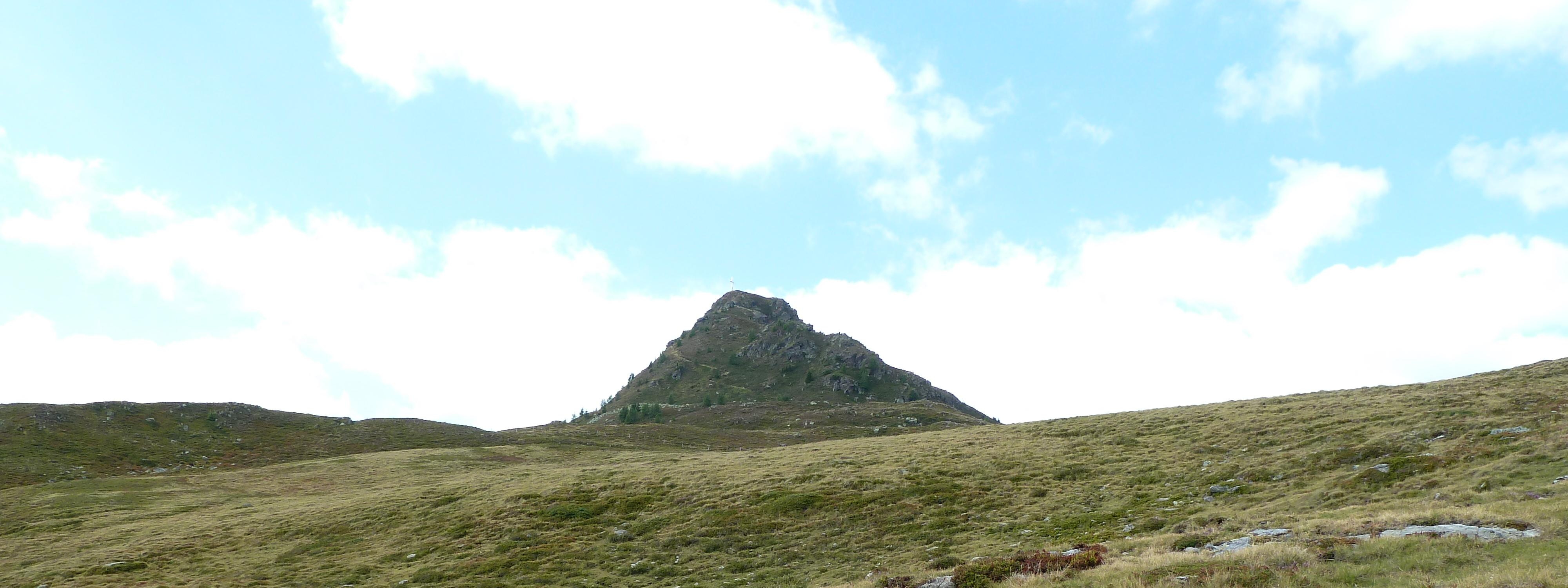 Peak of the Knoten, a 2214 m high mountain of the Kreuzeck Group.